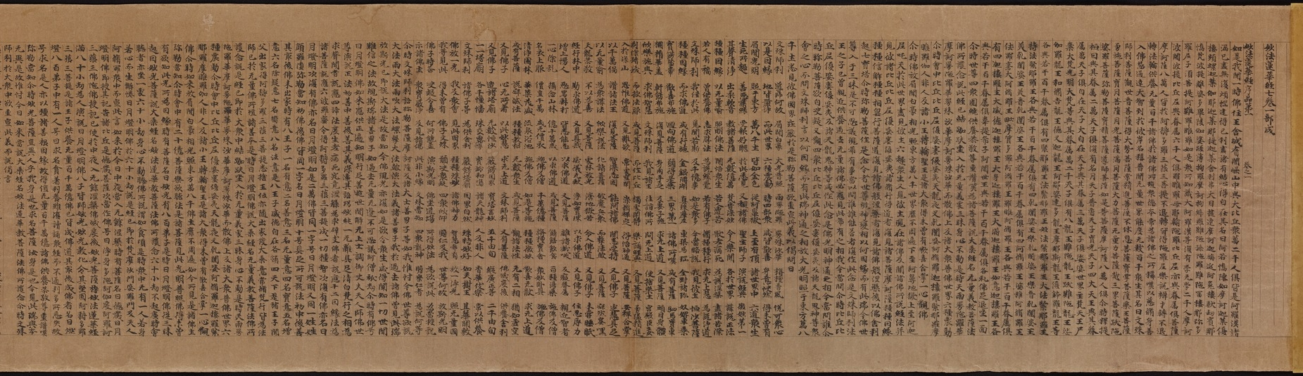 Lotus Sutra in minute characters (細字法華経 saiji hokekyō). 39 pages of 56 ruled lines with 32 characters per line; also known as Honored Companion Sutra (御同朋経 godōbōkyō?); handed down at Hōryū-ji. Part of one handscroll, ink on paper; 25.7 × 2,150 cm (10.1 × 850 in). Located at Tokyo National Museum, Tokyo.